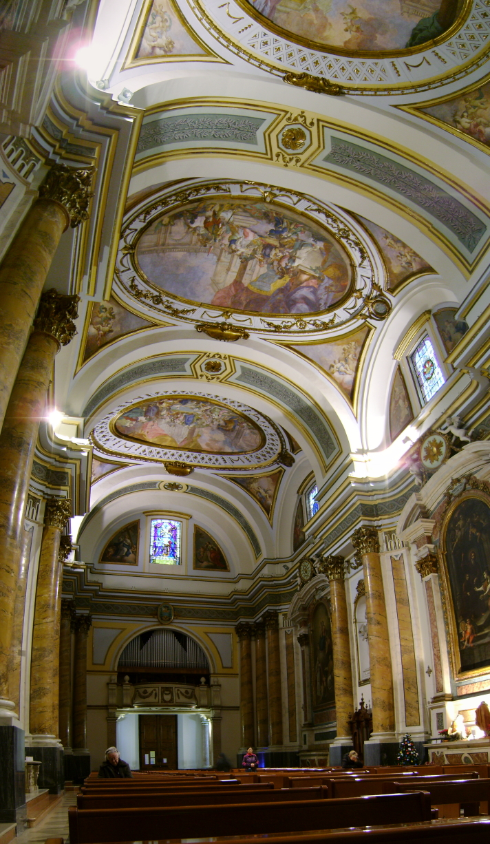 The interior of the basilica of the Madonna del Ponte, Lanciano, province of Chieti, Abruzzo